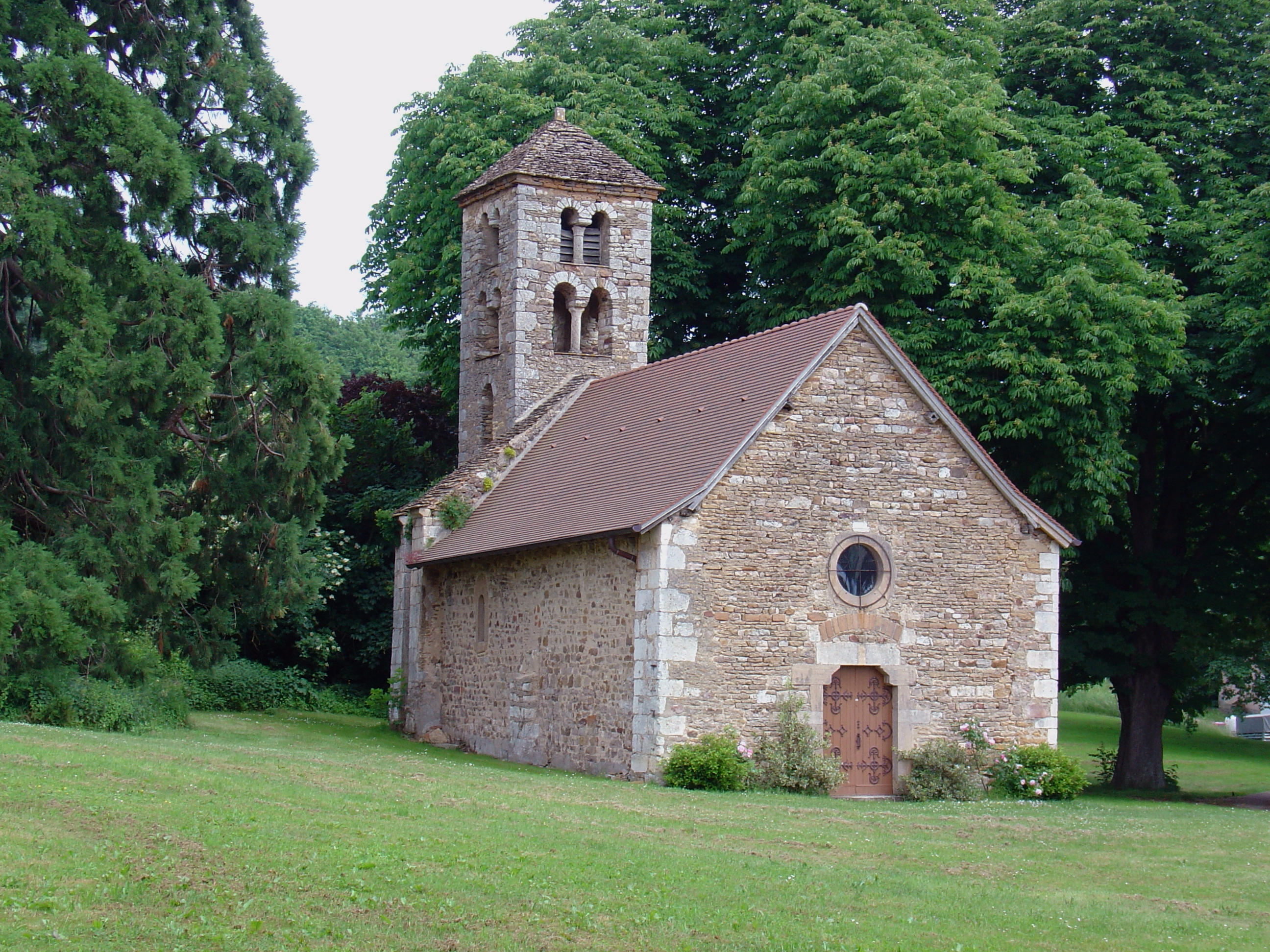 The chapel of Nancelle in the village of La Roche Vineuse, department of Saône et Loire (71), France